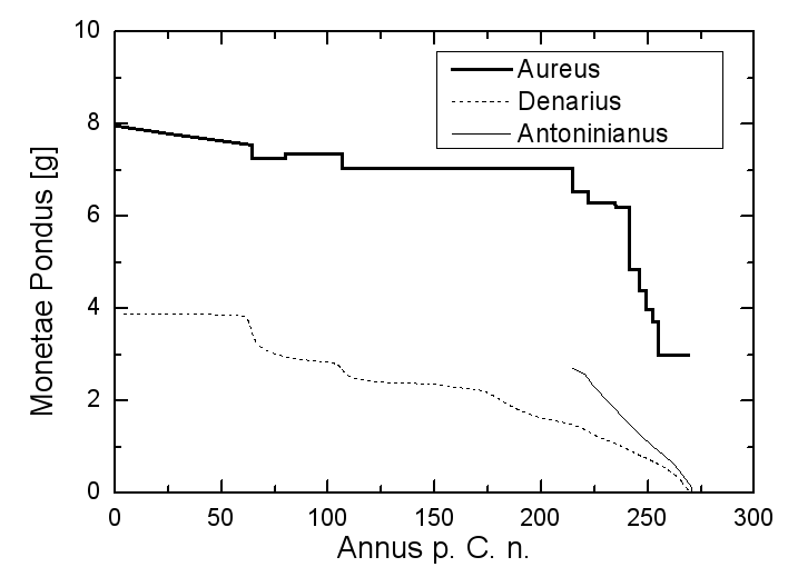 Data from Brown, Augustus. (undated booklet) The Financial Collapse of the Roman Coinage in the 3rd Century A.D. 20 pp. 1 plate. Published by Augustus Brown, Kyrenia, Kingston, Canterbury, Kent; accessed from website "CRISIS OF THE THIRD CENTURY" by Hugh Kramer at Follwoing the example of Hugh Kramer, the weight shown for the Denarius and the Atoninarius is the weight of silver in the coin not the weight of the coin itself.